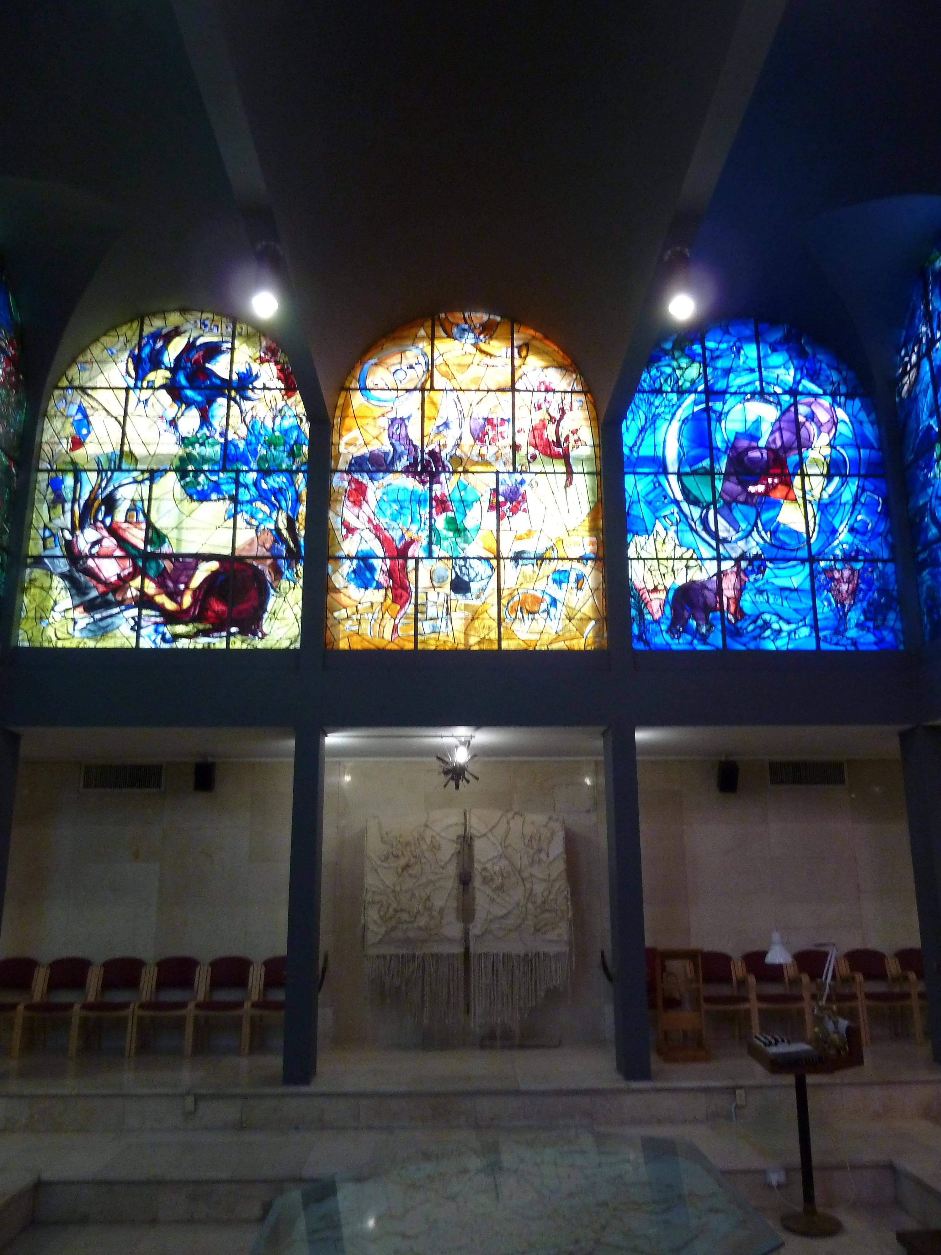 Hadassah Chagall Windows : North side of the synagogue, Tribes of Naphtali, Joseph & Benjamin above the Torah ark.